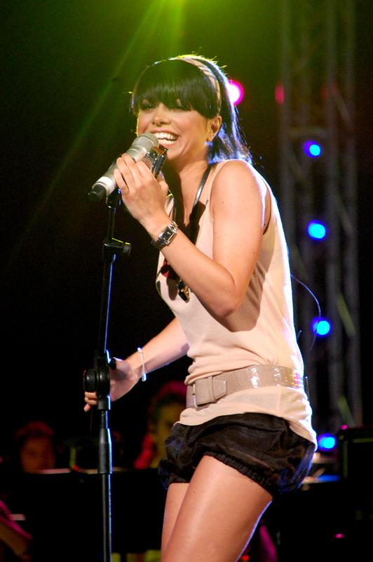 Dolcenera Live Tribute Beatles